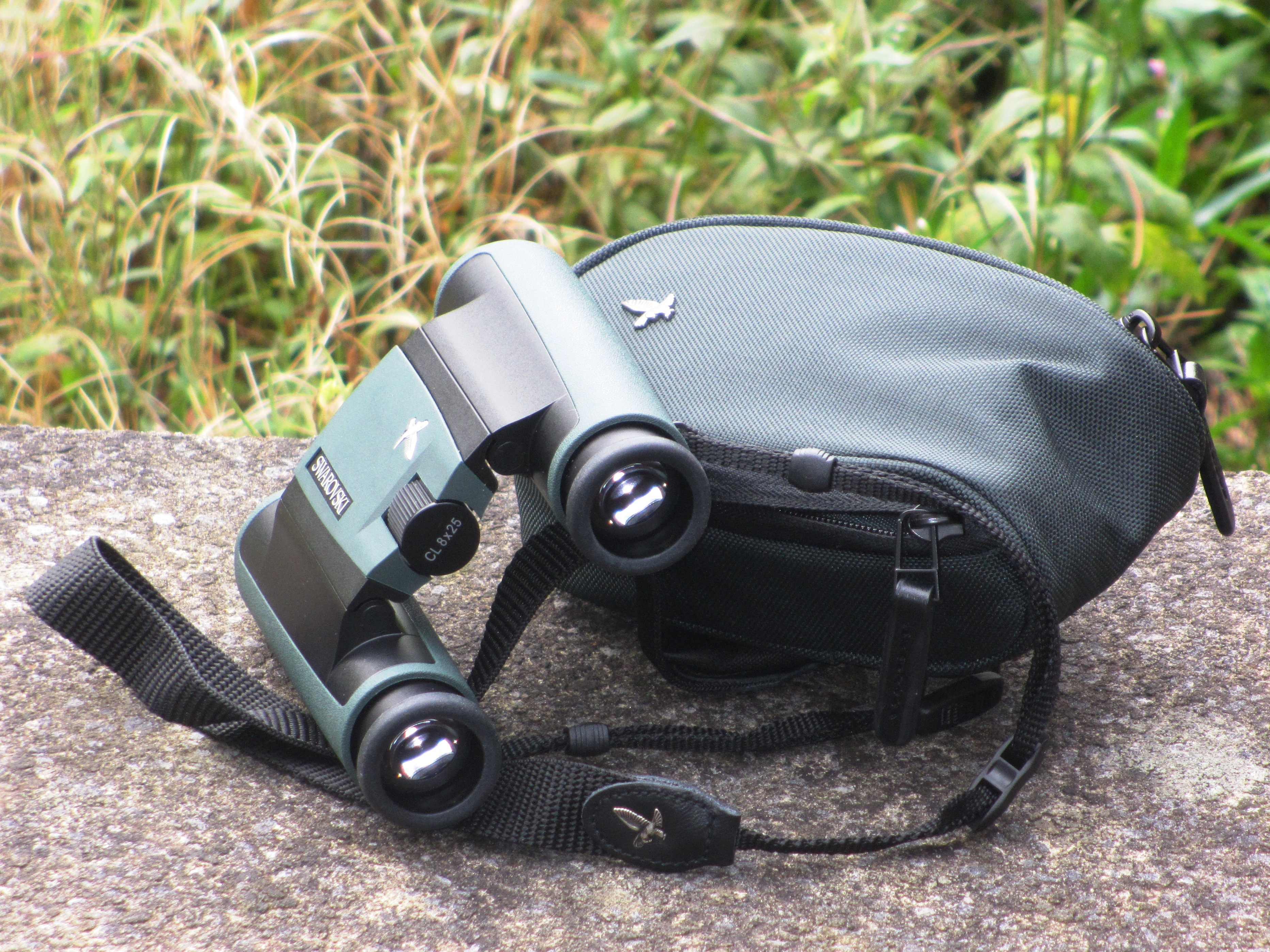 Swarovski Optik compact CL 8x25 binoculars with carry case.